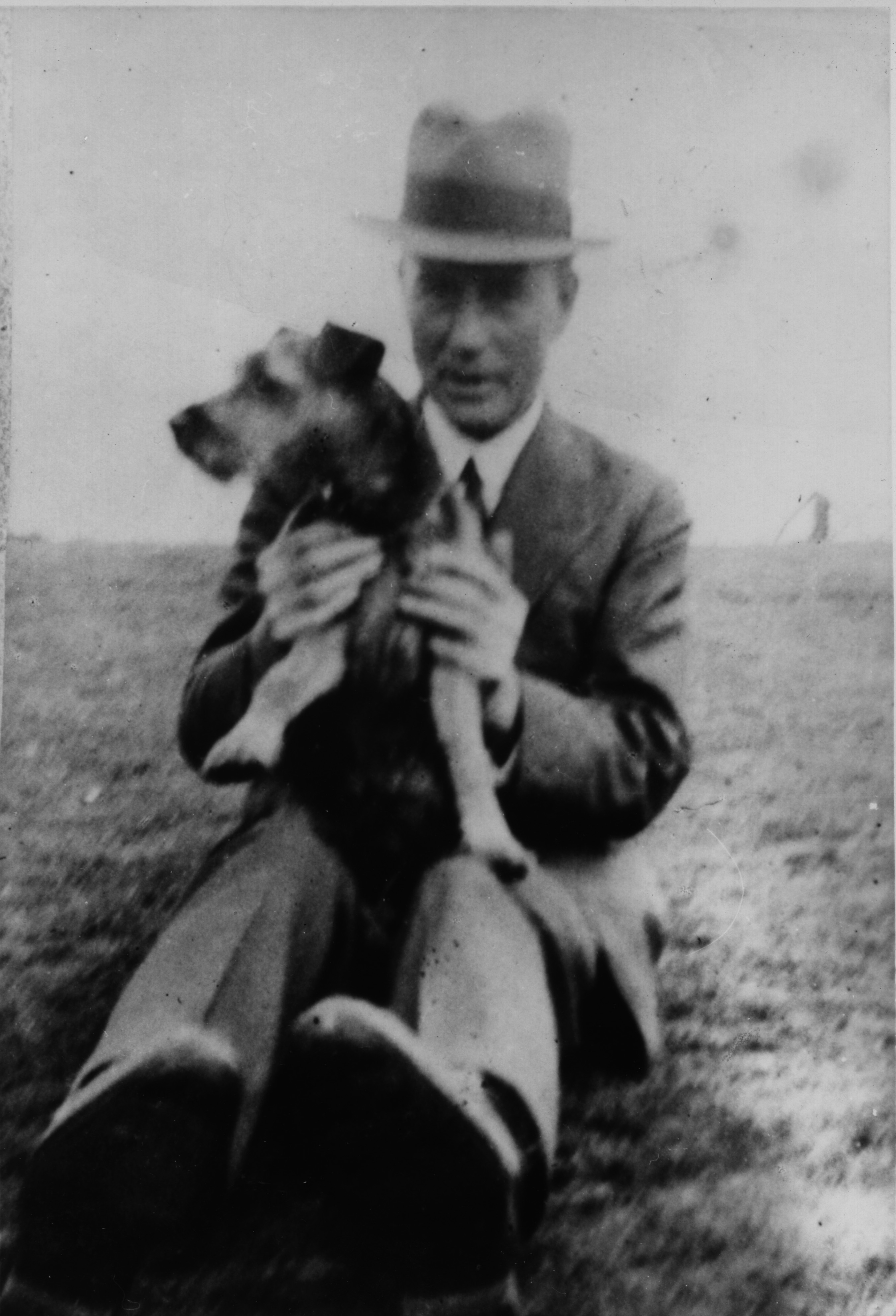 Fred Griffith and "Bobby" - This photograph is one of the few remaining of the English microbiologist who was killed in the Blitz in London in 1941. Although Griffith and Avery never met, the two scientists greatly respected each other's work on pneumococci transformation. Inscription on reverse reads "Snap-shot of Dr. Fred. Griffith and "Bobby" on the Downs near Brighton from Al Coburn." Number of Image Pages